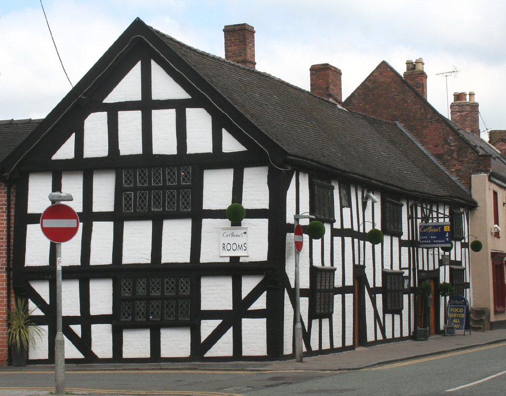 Widows' Almshouses, Welsh Row, Nantwich, Cheshire